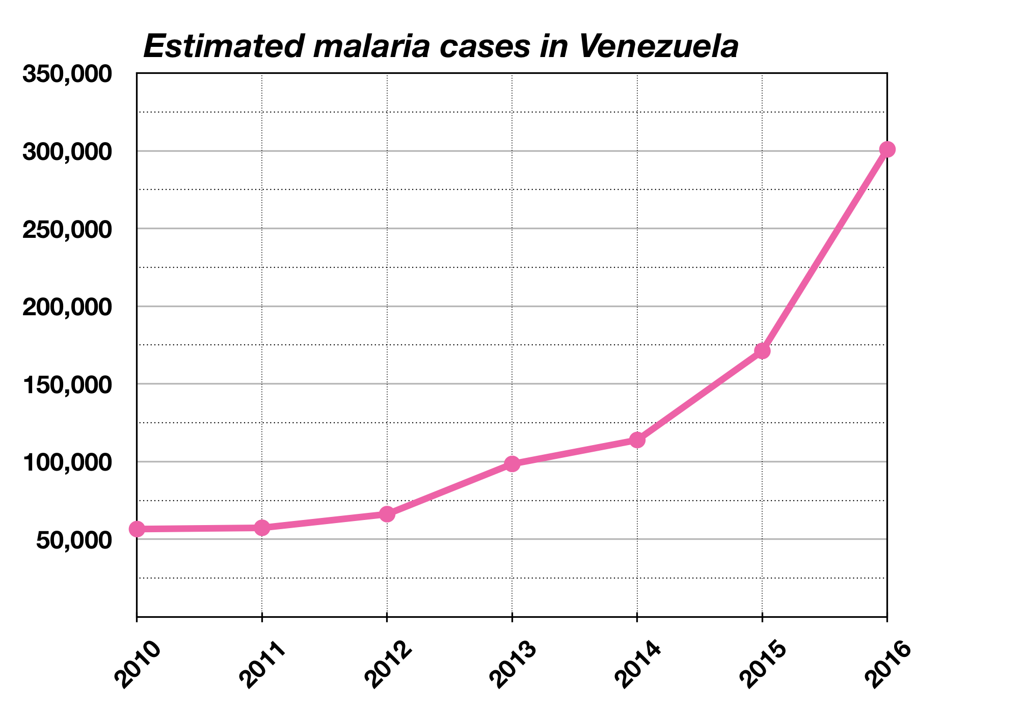 Estimated malaria cases in Venezuela